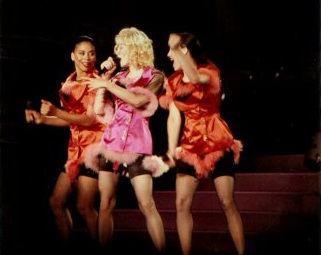 Photo taken during one of the concerts in 1990